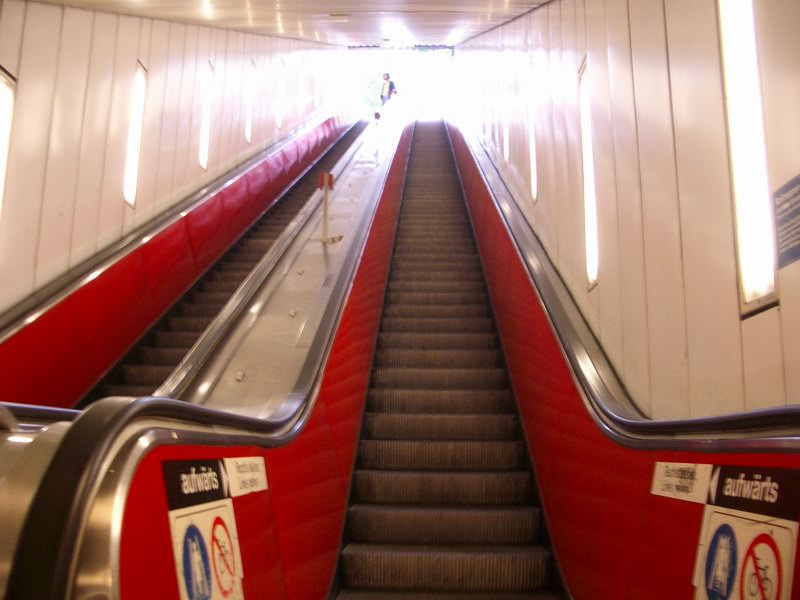 Frankfurt Subway, escalator at Römer station